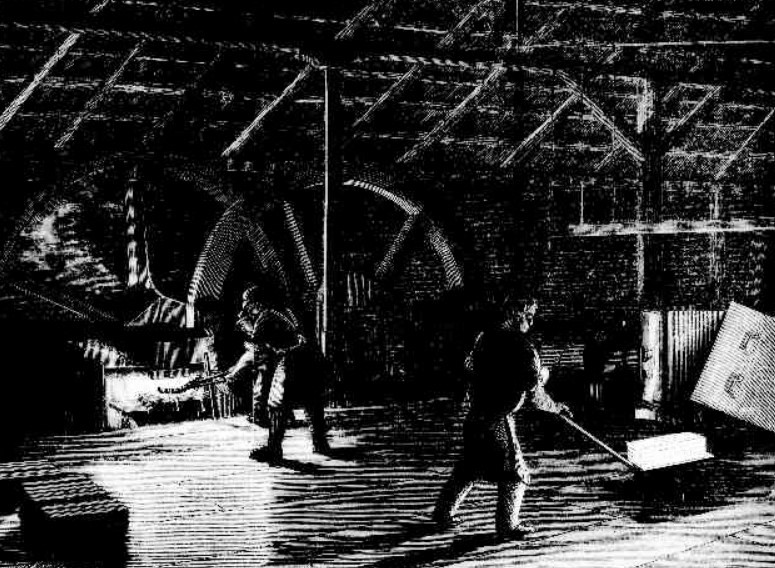 Taken from "Represents the tilt hammer at work, and a man in the foreground wheeling a heated . pile of puddled bars from the mill furnace to the rolls." "The puddled balls are successively taken to the tilt hammer, by which the cinder or impurity is squeezed out, and hammered to a convenient shape for passing through the rolls, which draw them out into long flat bars called puddled bars. "